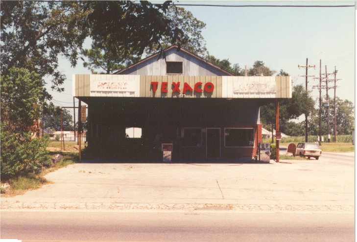 Color photograph of a typical Service & Repair Station in South Louisiana. Photo taken looking South across Louisiana Highway 86 (Main Street).